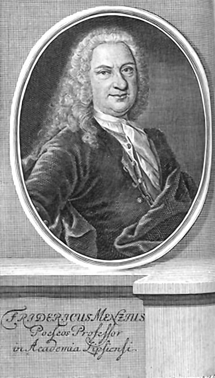 Johann Friedrich Menz (1673-1749)Physicist and Philosopher from Germany